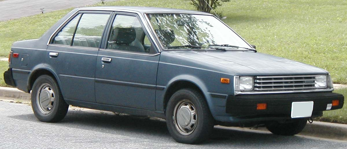 1982-1983 Nissan Sentra photographed in USA.